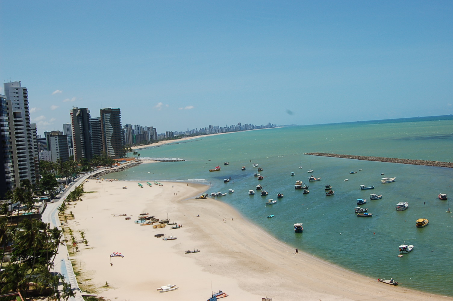 View of Candeias' beach, Pernambuco, Brazil.